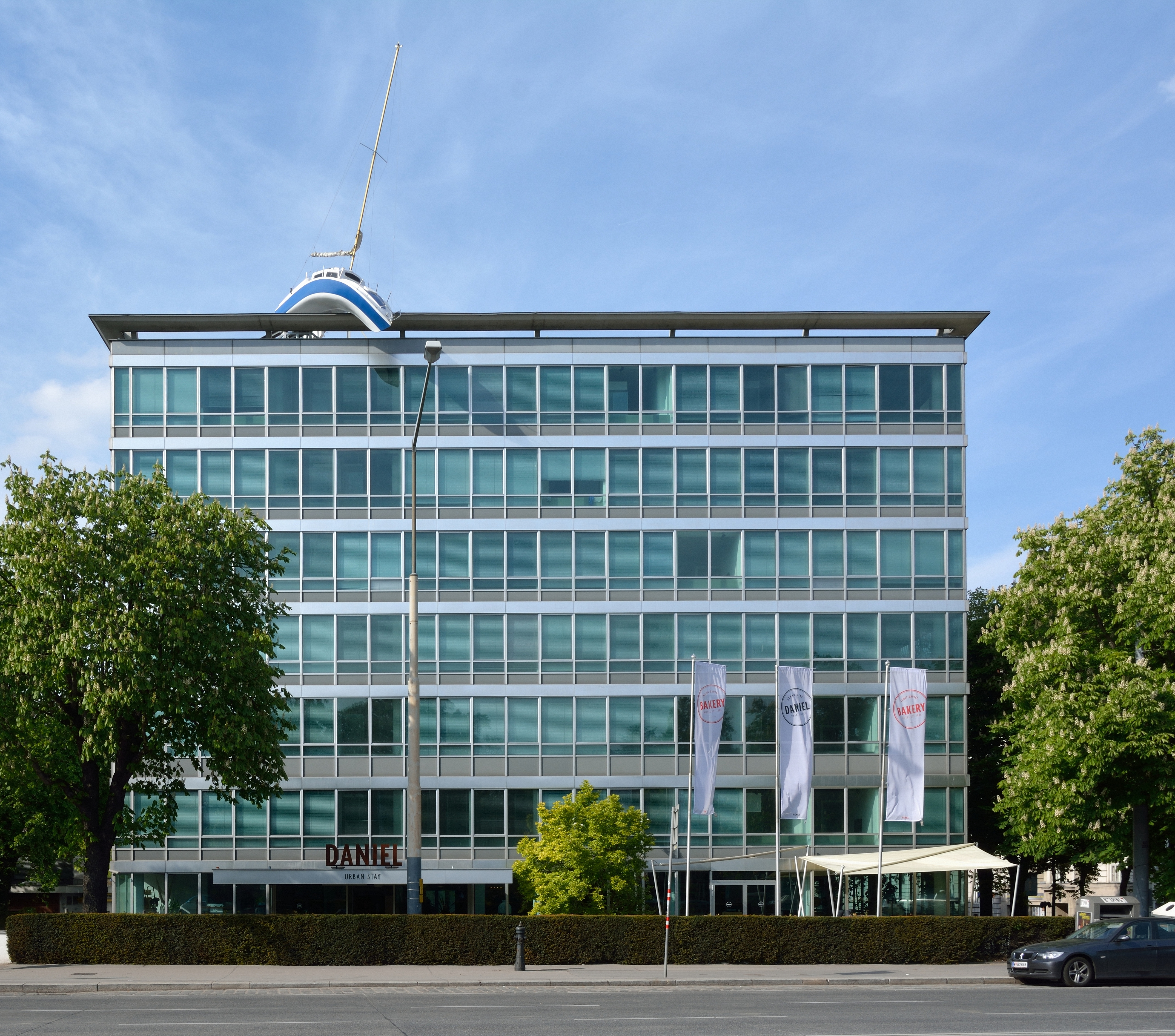 Hotel Daniel, Landstraßer Gürtel 5 (second address: Jaquingasse 16-18), 3rd district of Vienna